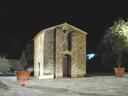 see user:Attilios talk for images from